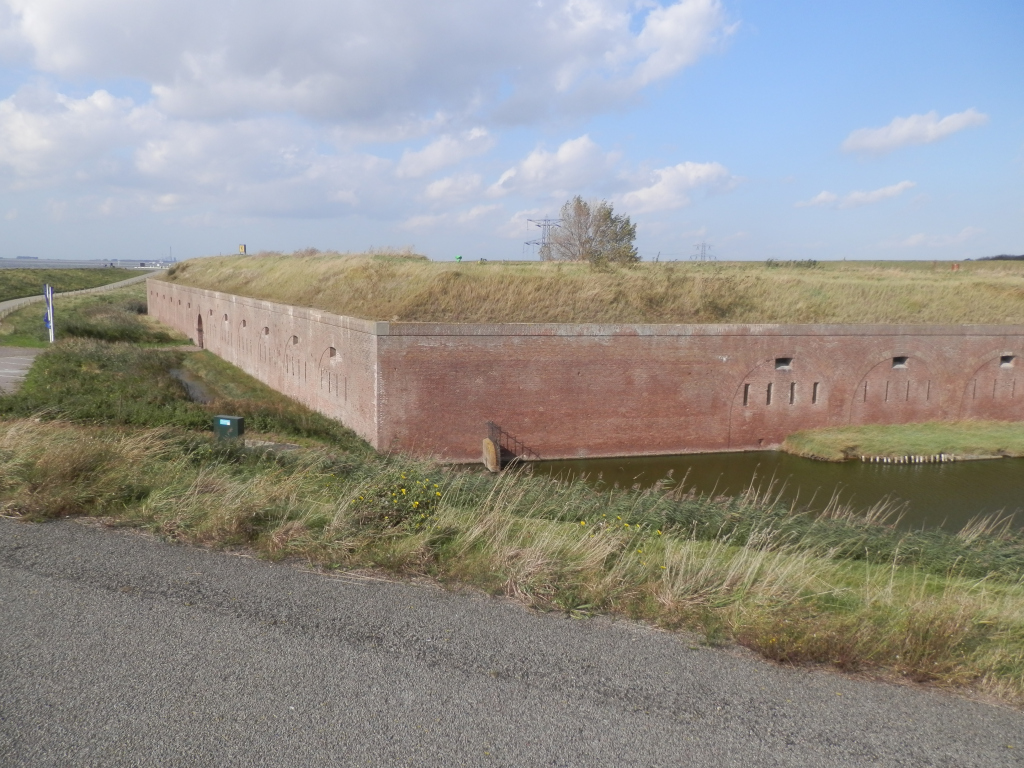 Fort Ellewoutsdijk Zeeland Netherlands